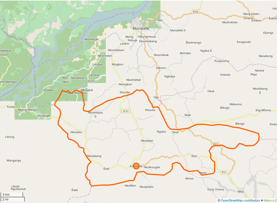 Evodoula in Cameroon ː city boundaries with OSM. This map may be incomplete, and may contain errors. Don't rely solely on it for navigation.